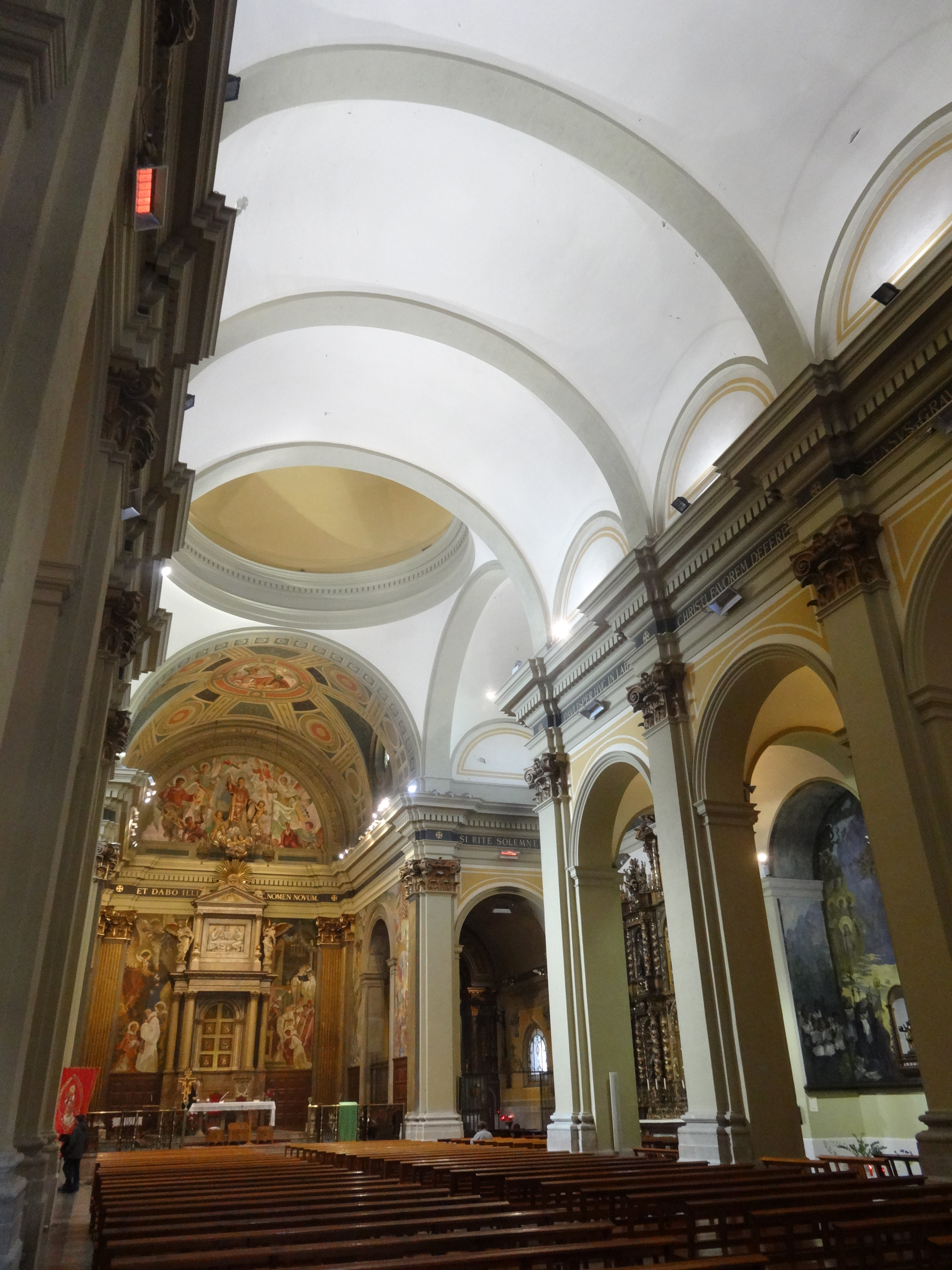 Interior of Església de Sant Vicenç de Sarrià